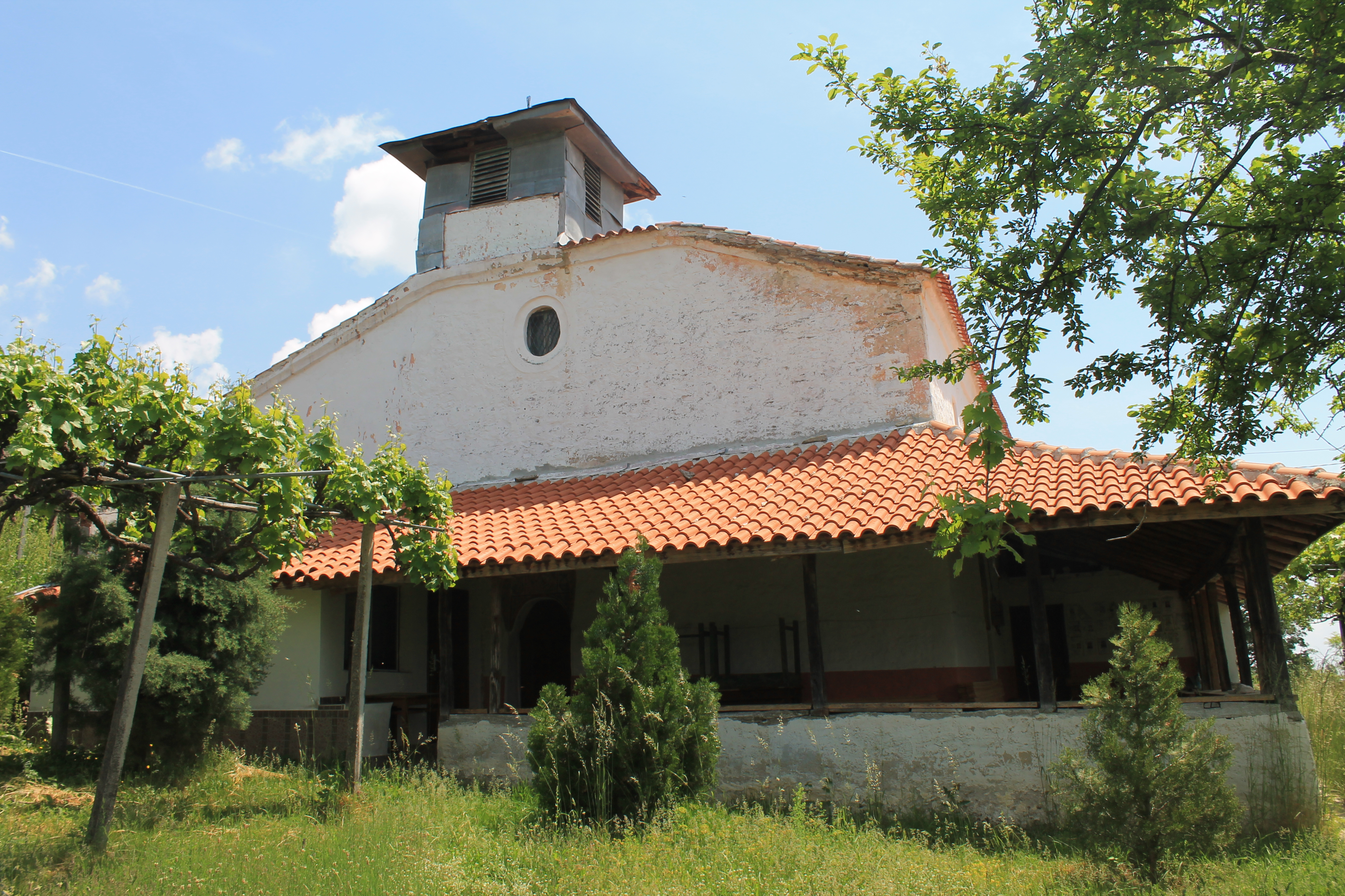 Church "Dormition of the Mother of God" in the village of Dolenе, Southwest Bulgaria